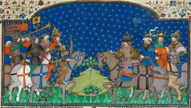 Charlemagne and four kings; detail of a miniature from BL Royal MS 15 E vi, f. 25r (the "Talbot Shrewsbury Book"). Held and digitised by the British Library.